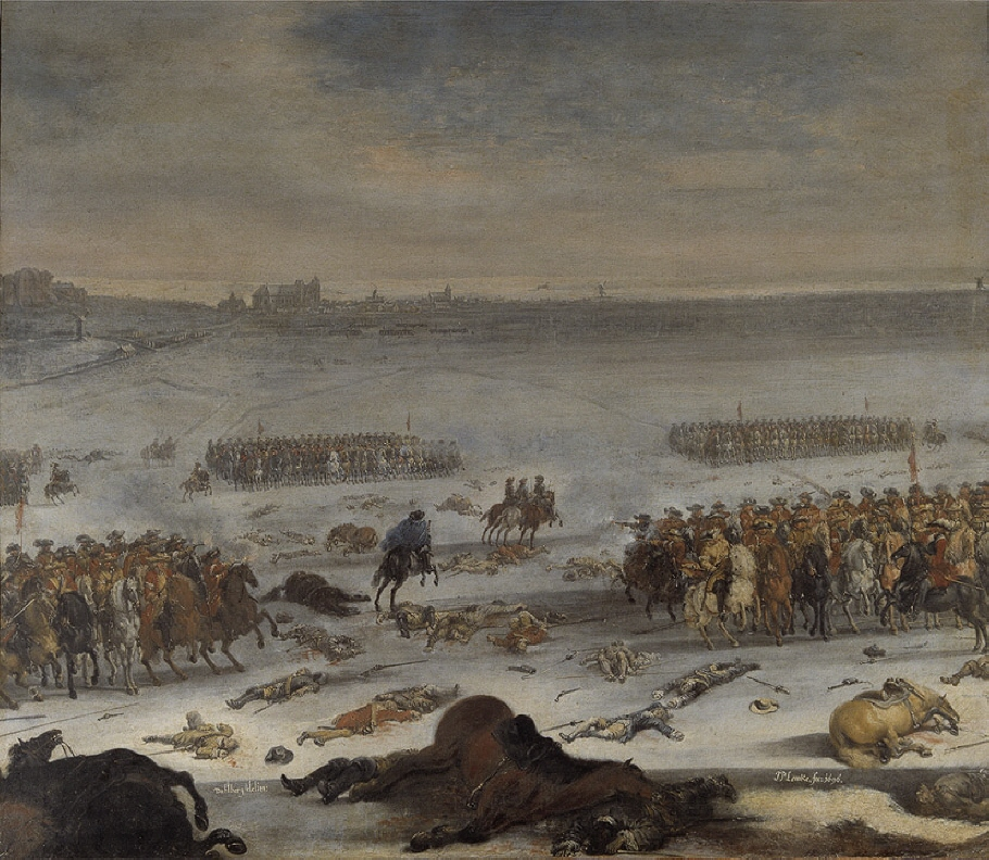 Battle of Lund, painted by Johan Philip Lemke.